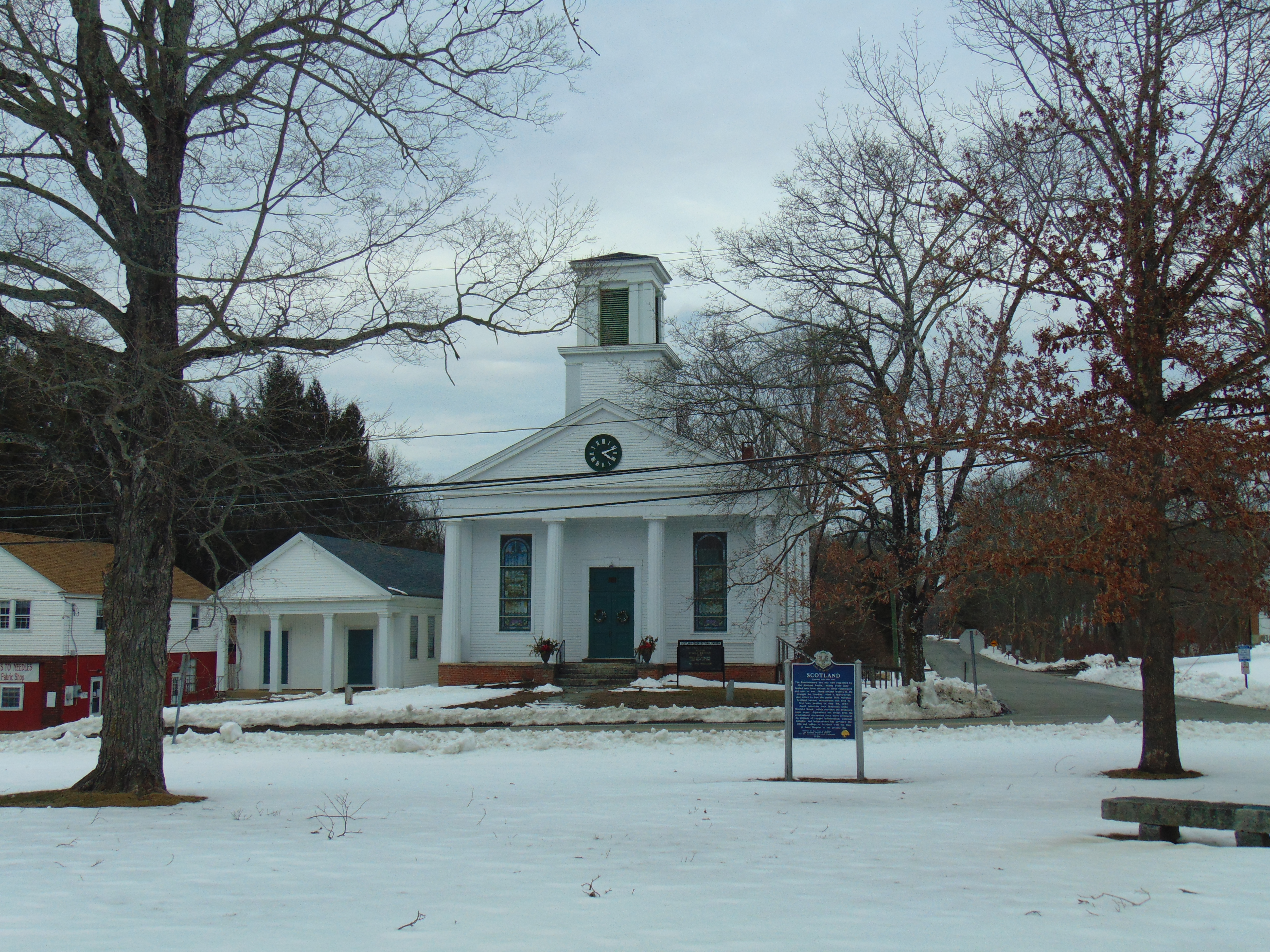 A photo of the center of Scotland, CT